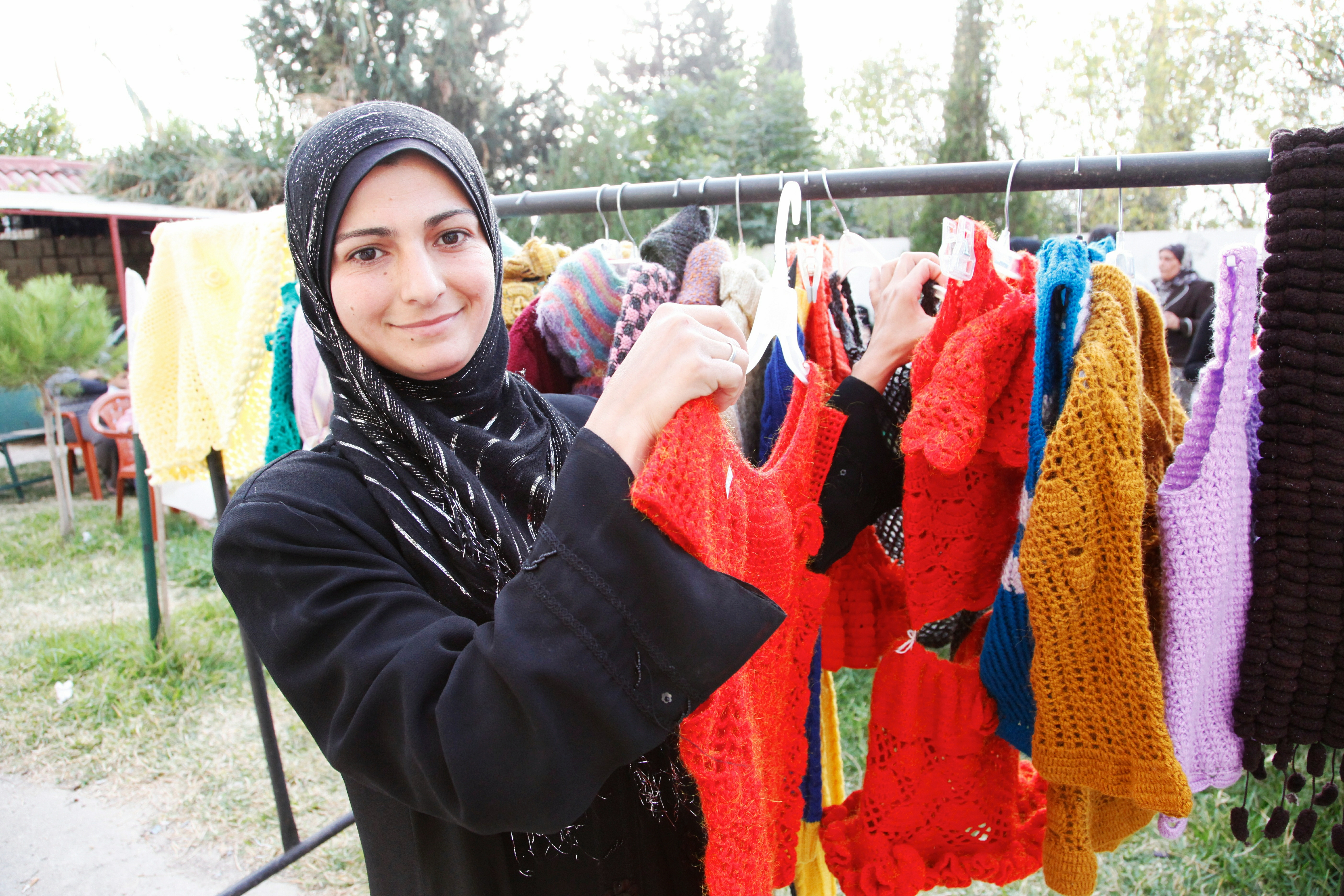 A woman from Homs, Syria, now a refugee in Lebanon, shows off knitted woolen clothes that she's learnt how to make, with support from the International Rescue Committee and UK aid. As well as training women to make fishing nets, for which there is a local market in northern Lebanon, the International Rescue Committee is also running a project helping women to learn to knit clothes. The clothes can then either be used by the refugees themselves (many refugees were able to bring very few clothes with them from Syria) or they can be sold at local Lebanese markets like this one. The UK has committed over £600 million to help those affected by the conflict in Syria - our largest ever response to a humanitarian crisis. This funding is providing support including food, medical care and relief items for over a million people - people who have been affected by the fighting but are still inside Syria and those who have fled the country and become refugees in neighbouring Lebanon, Jordan, Turkey and Iraq. Picture: Russell Watkins/DFID